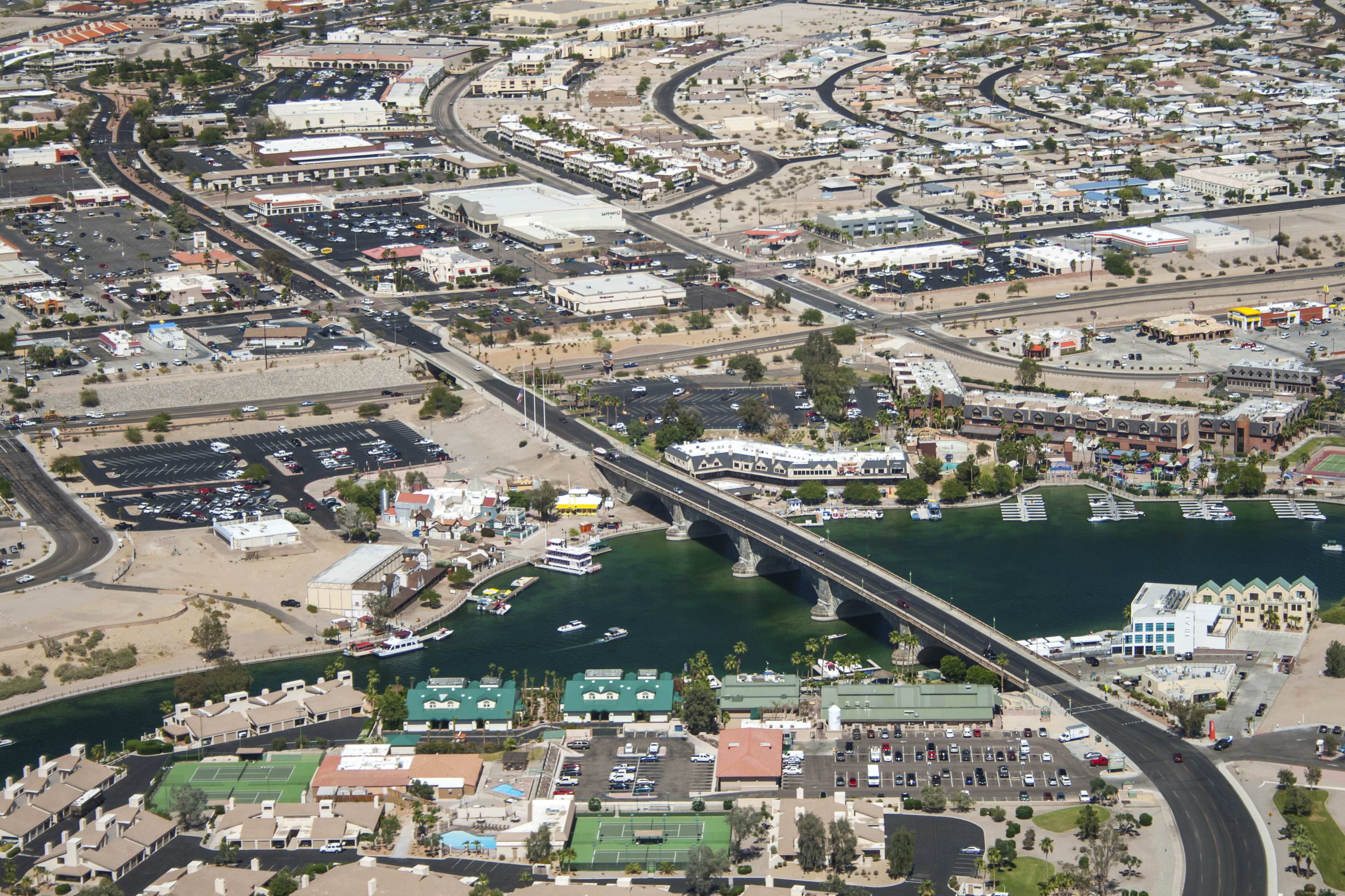 Aerial photo of London Bridge in Lake Havasu City.